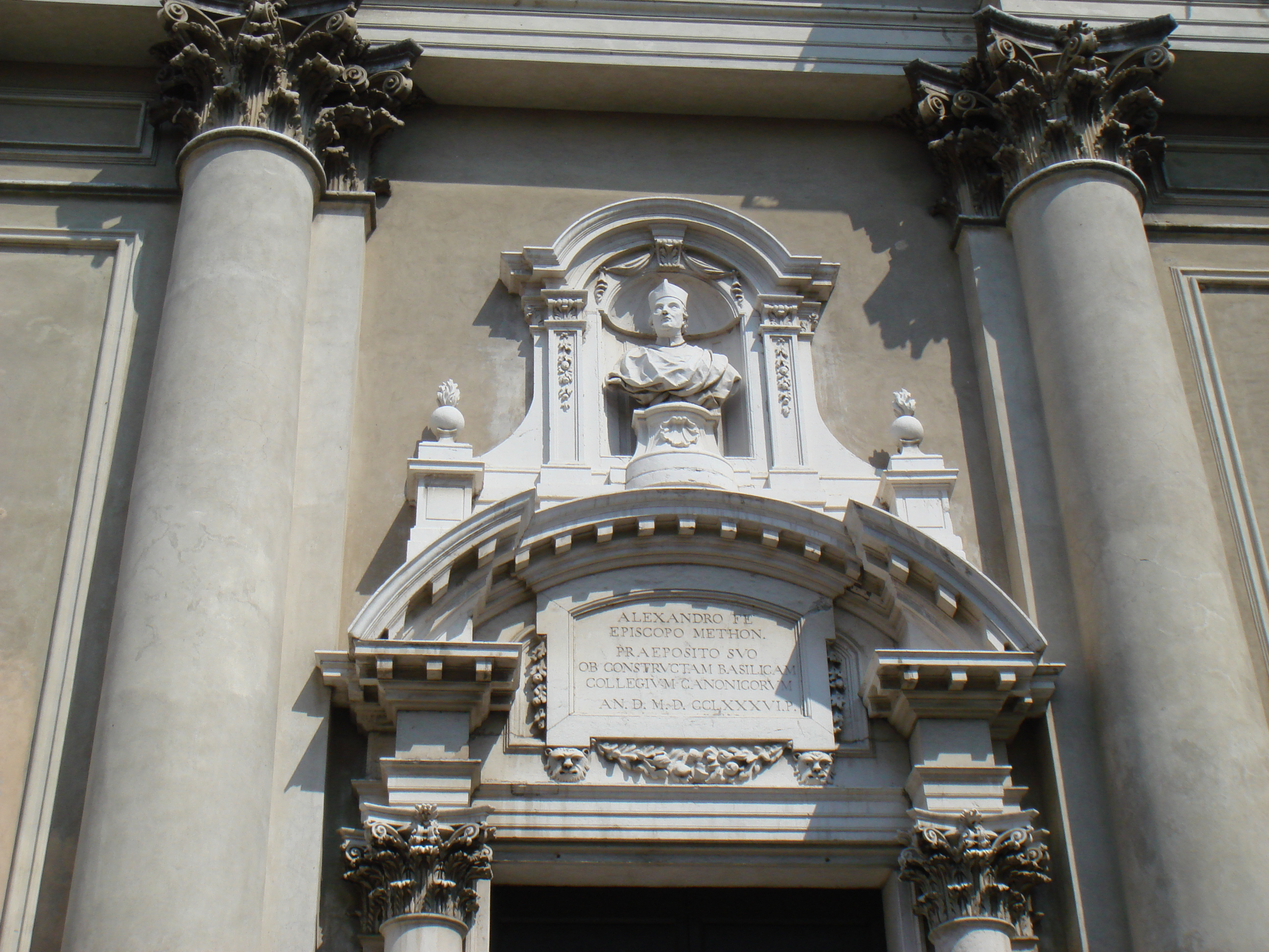 Church of Brescia, Italy. Picture by Stefano Bolognini.